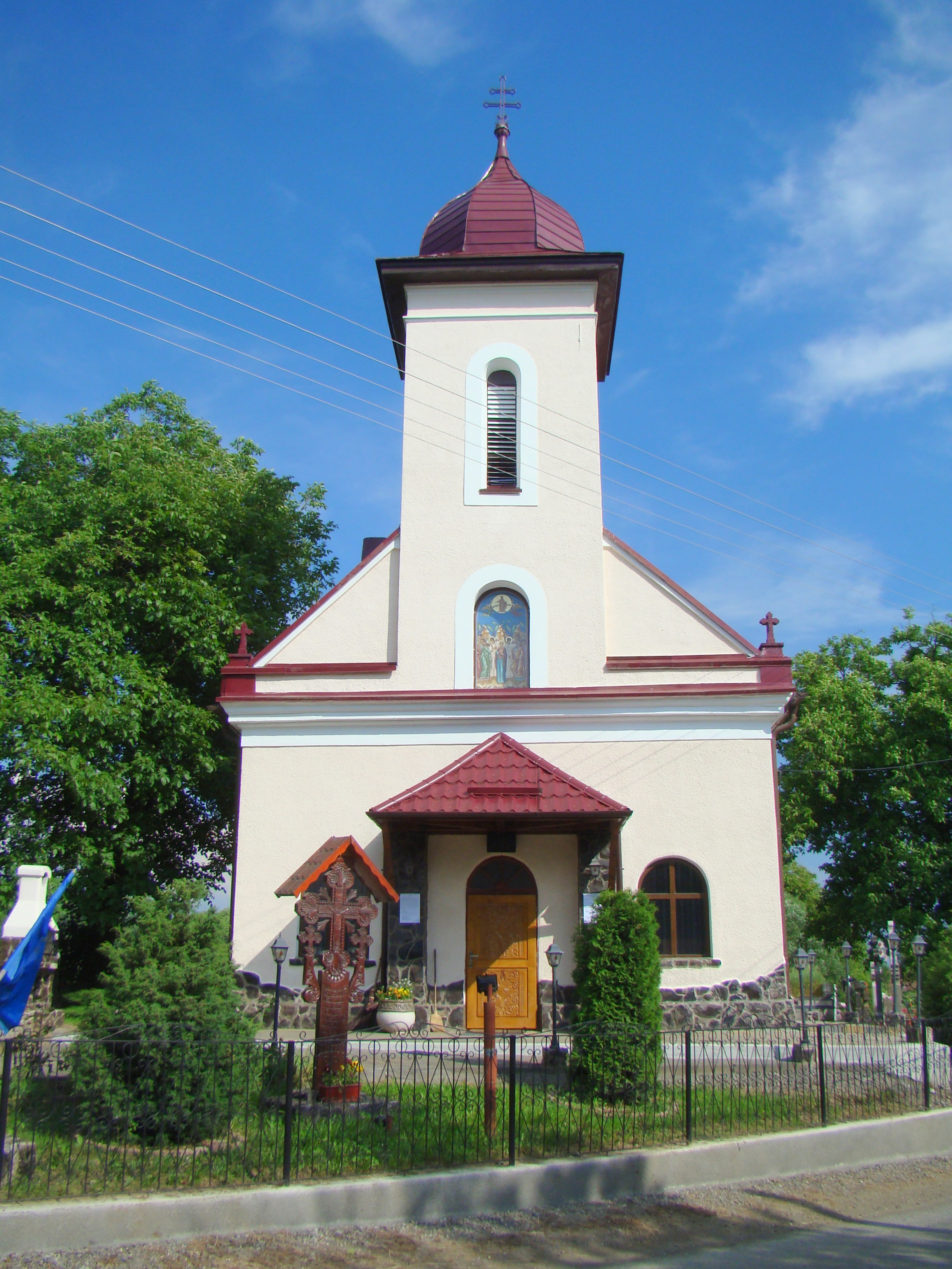 Orthodox church of The Ascension of our Lord in Râpa de Jos, Mureş county, Romania